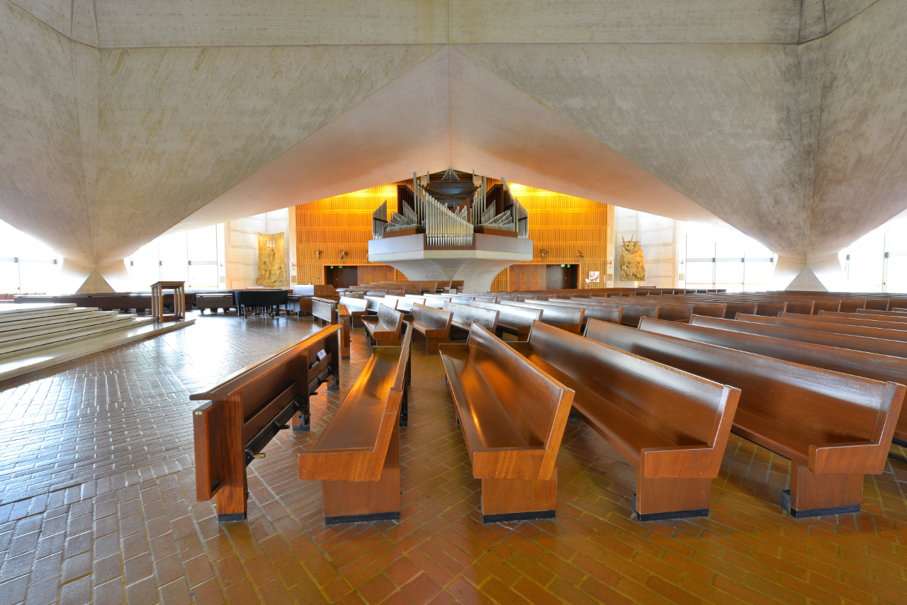 Cathedral of Saint Mary of the Assumption